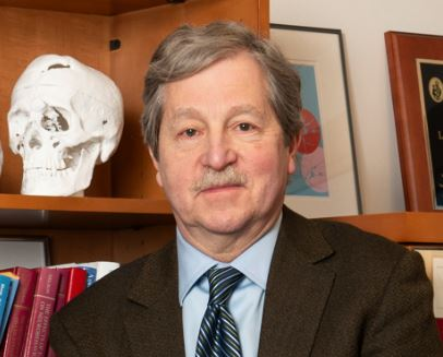 A head shot of Dr. Charles Nelson in his office at Boston Children's Hospital.